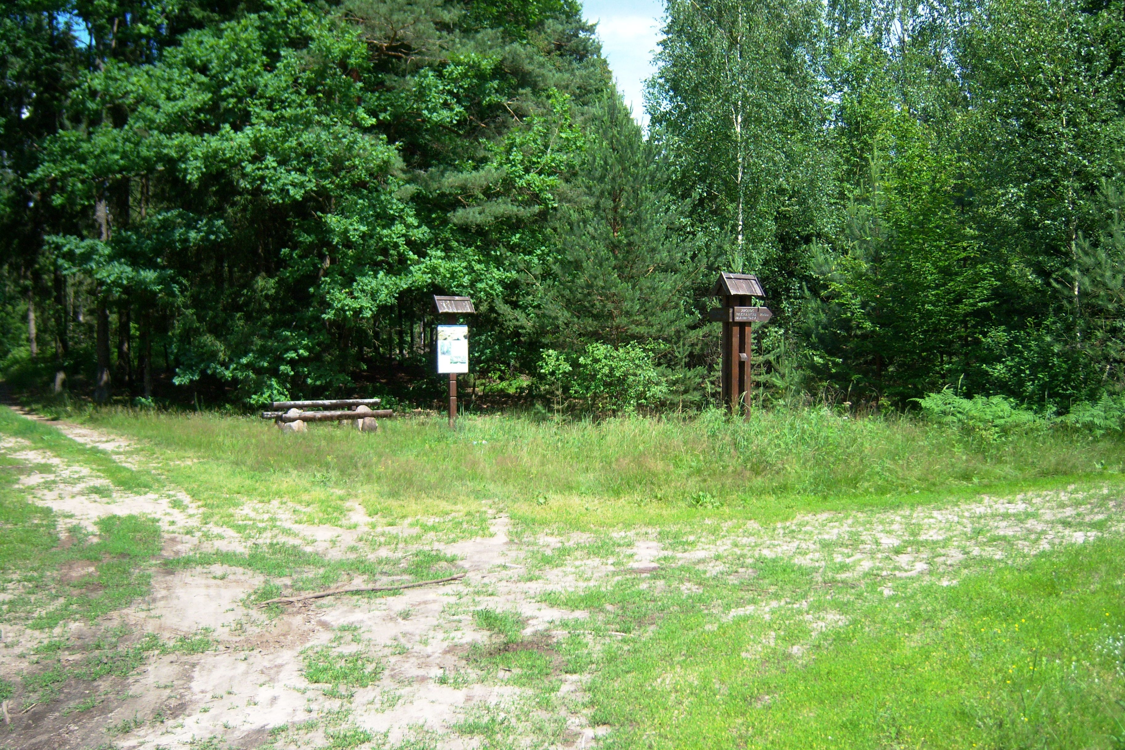 Forest near larches on Žigla River bank, Kaunas district, Lithuania